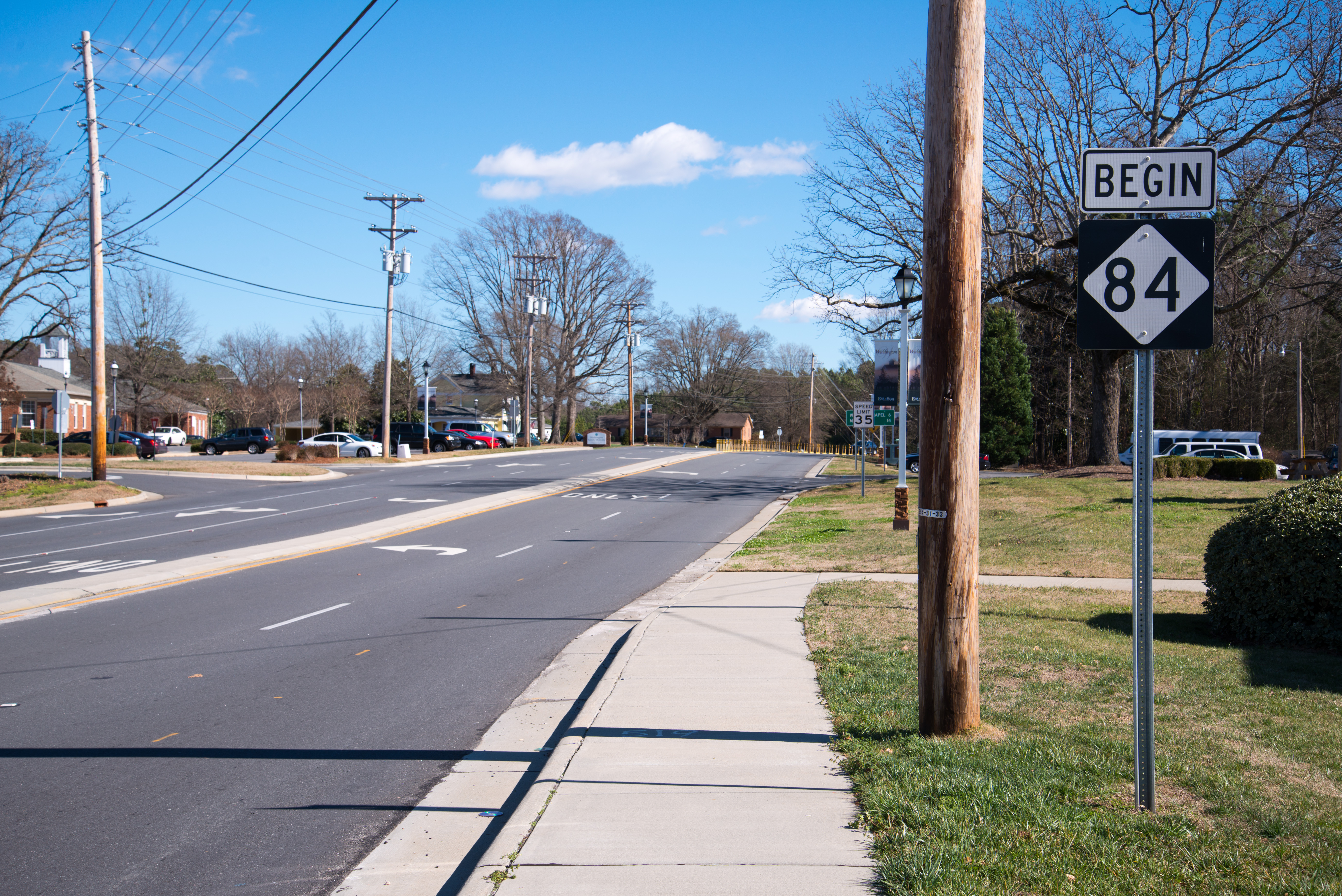 Begin of Eastbound North Carolina Highway 84 in Weddington, North Carolina.